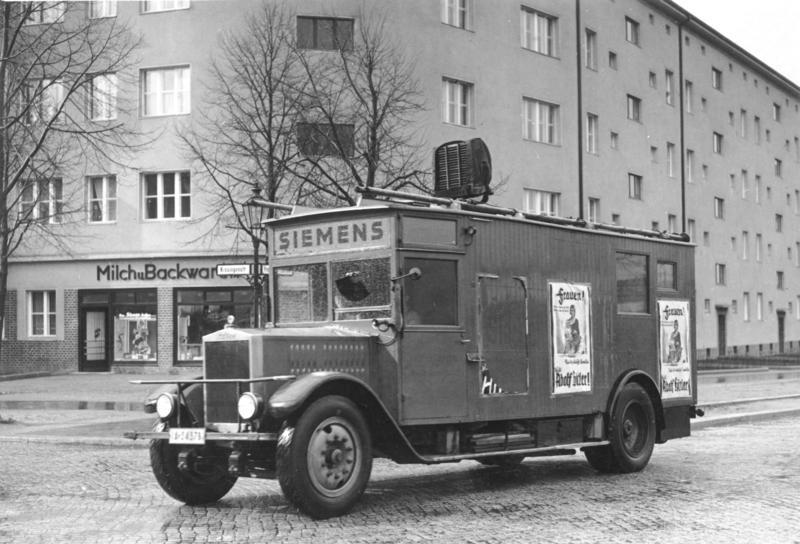 Presidential elections, Nazi public address van at Berlin-Pankow